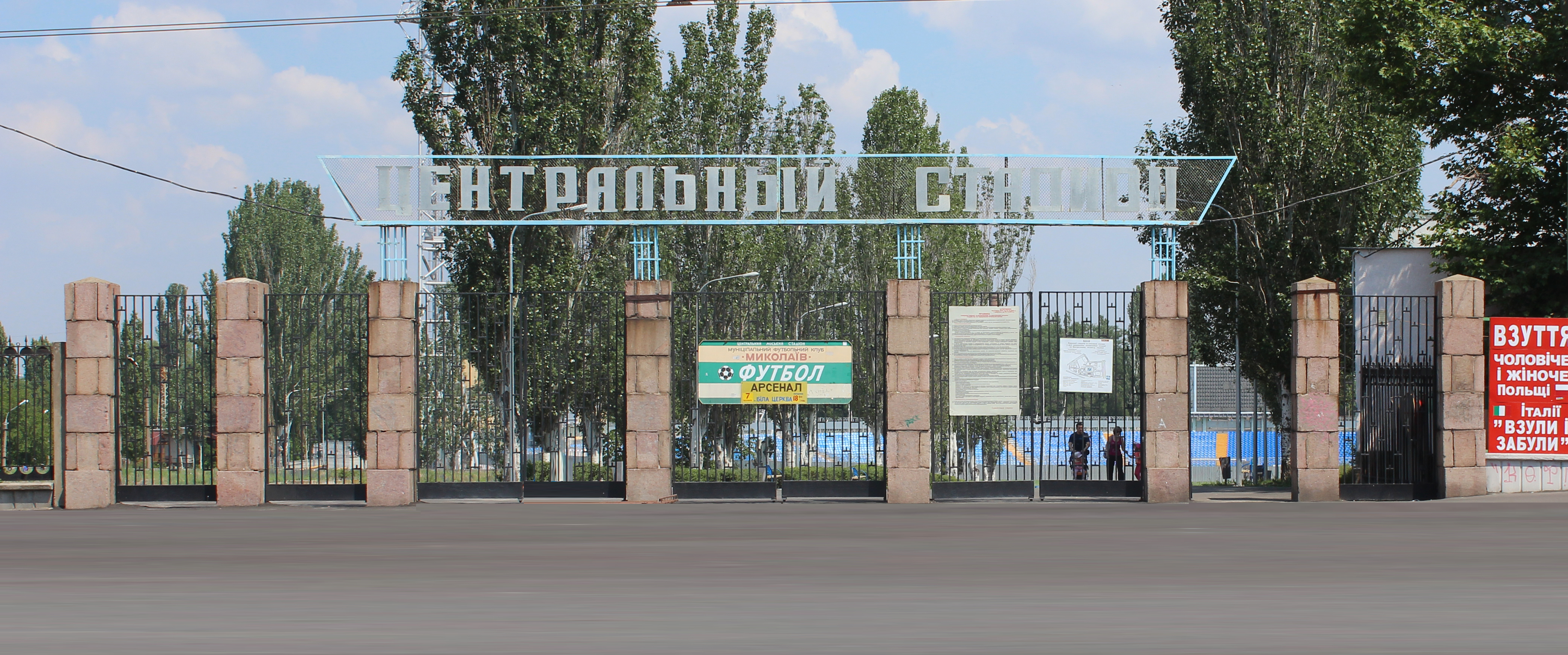 Central City Stadium. Mykolaiv, Ukraine.